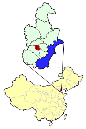 Location of Tianjin in China. Made by Photoshop.